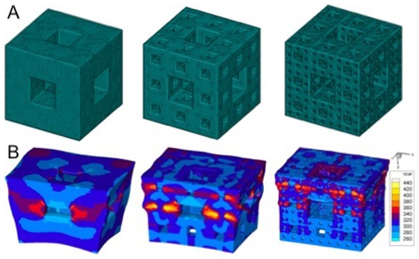 Temperature distribution in the Menger fractal structures following a shockwave loading